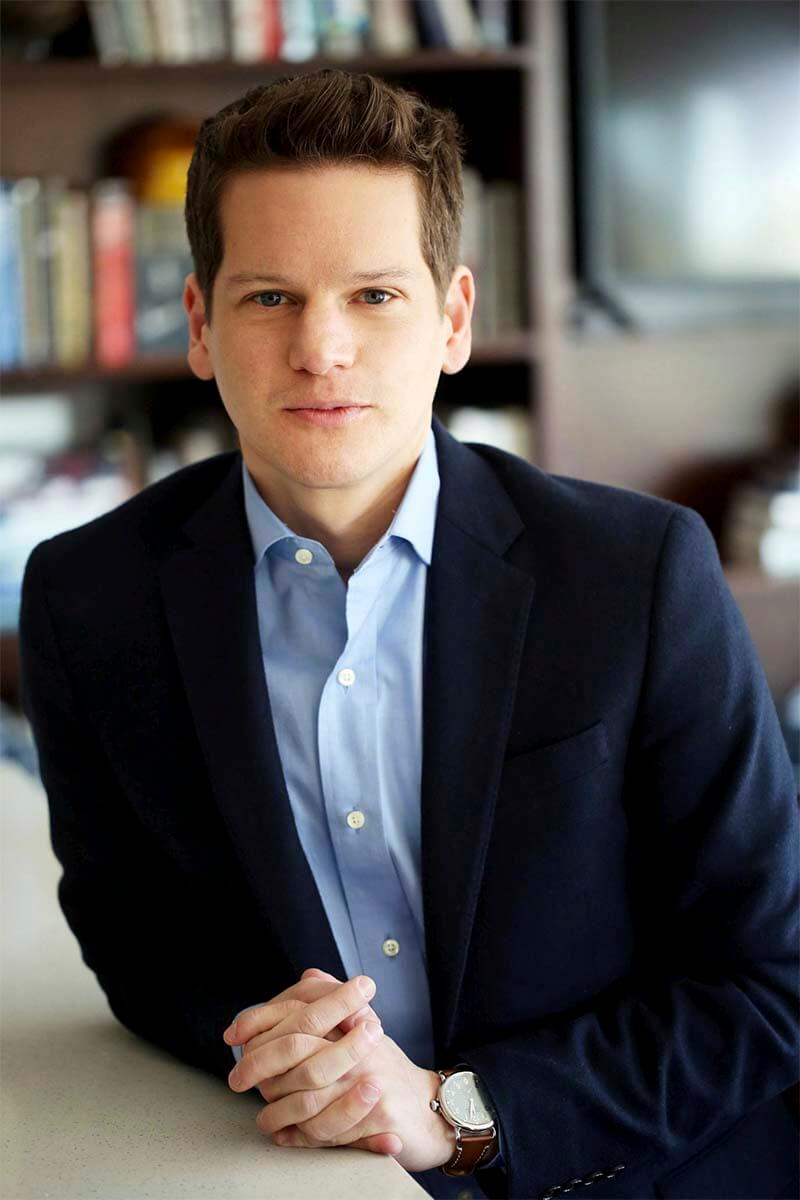 Photo of Graham Moore, Author and Screenwriter taken in 2016 by Matt Sayles.